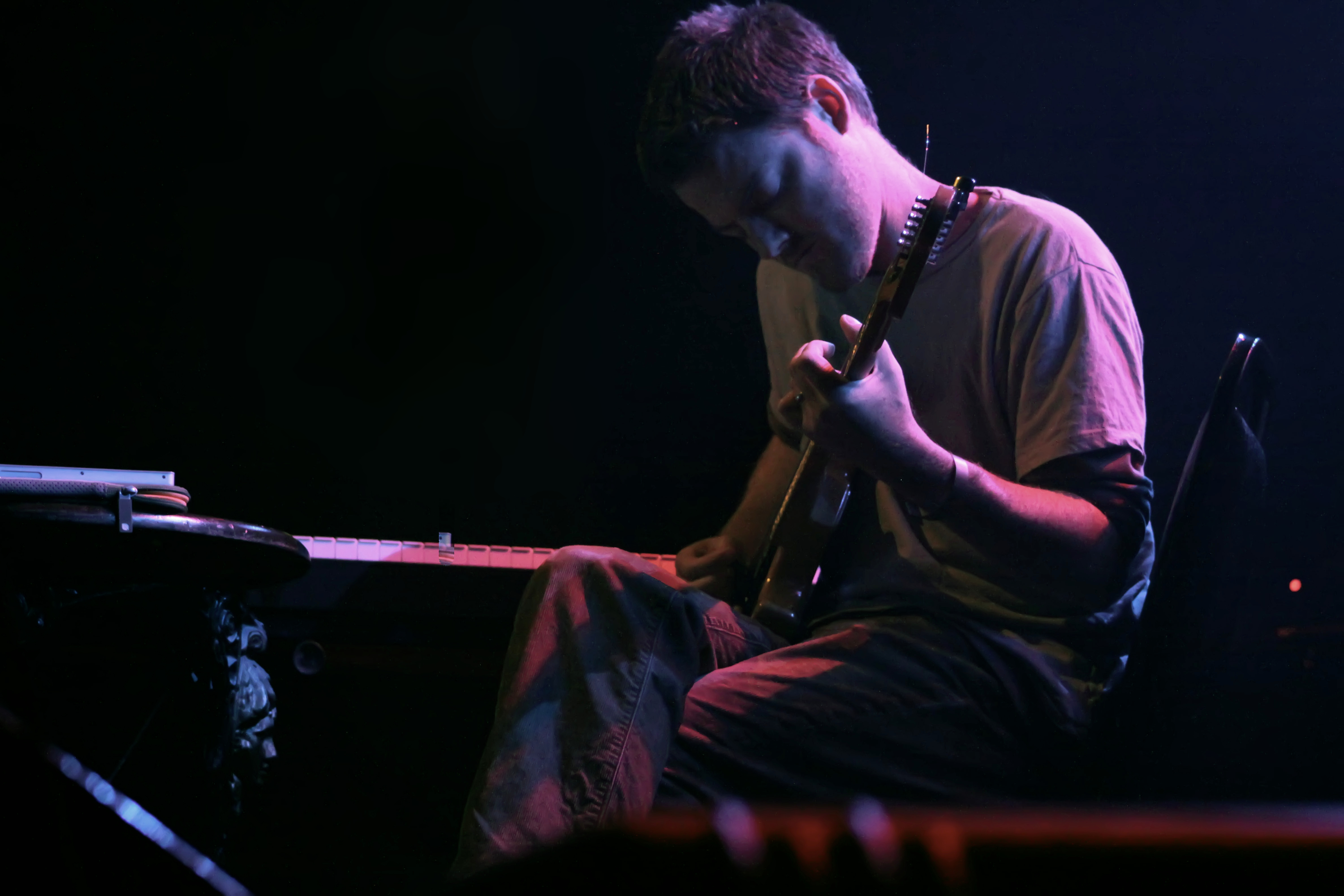 Eluvium performing at The Crystal Ballroom in Portland, Oregon during Musicfest Northwest-September 29, 2009